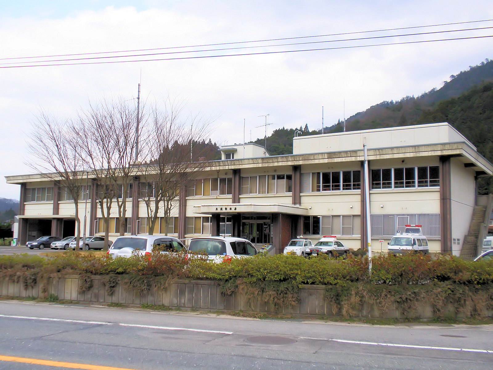 Kurosaka police station, Hino, Tottori.